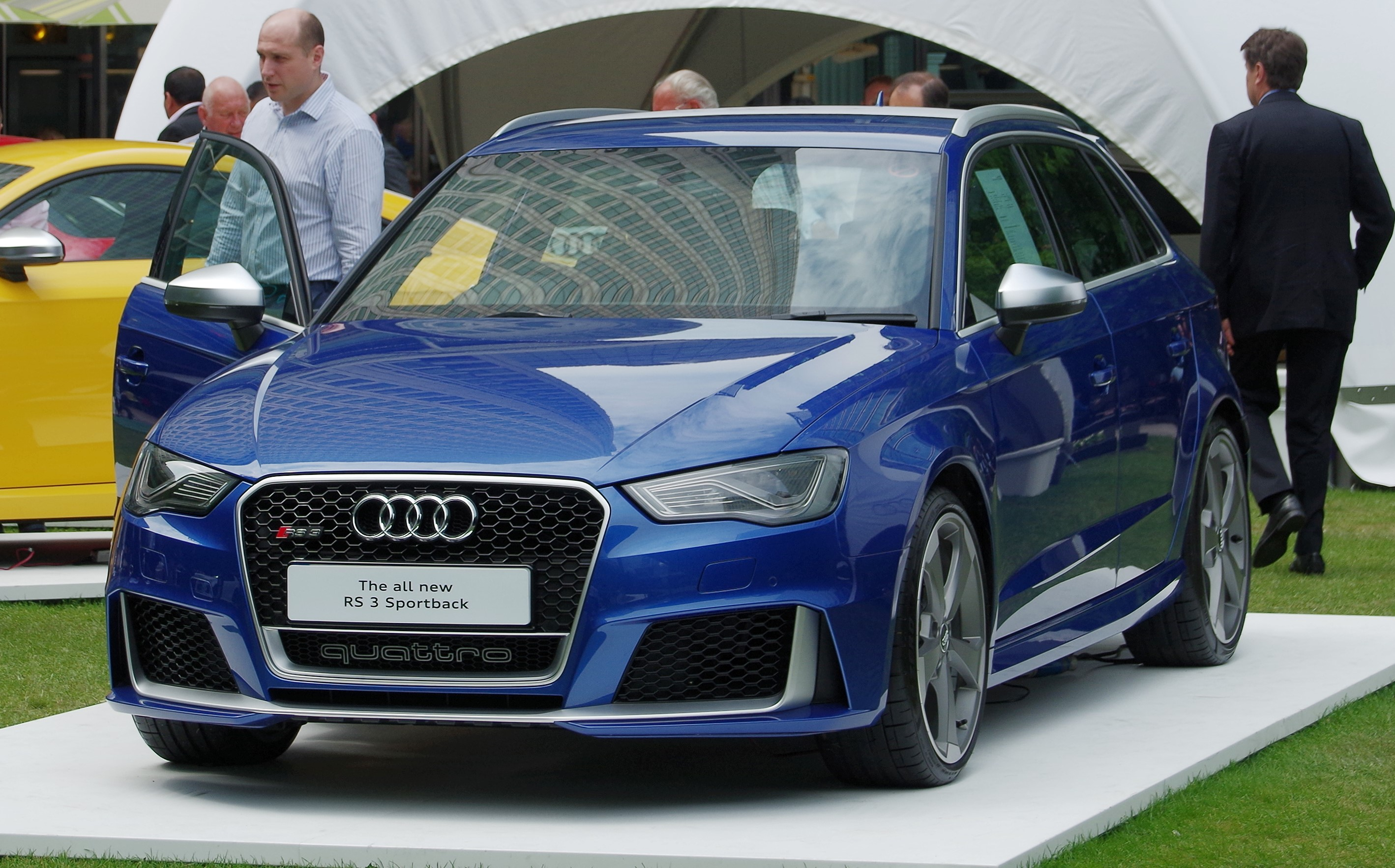 An Audi RS3 Quattro at the Canary Wharf MotorExpo 2015.